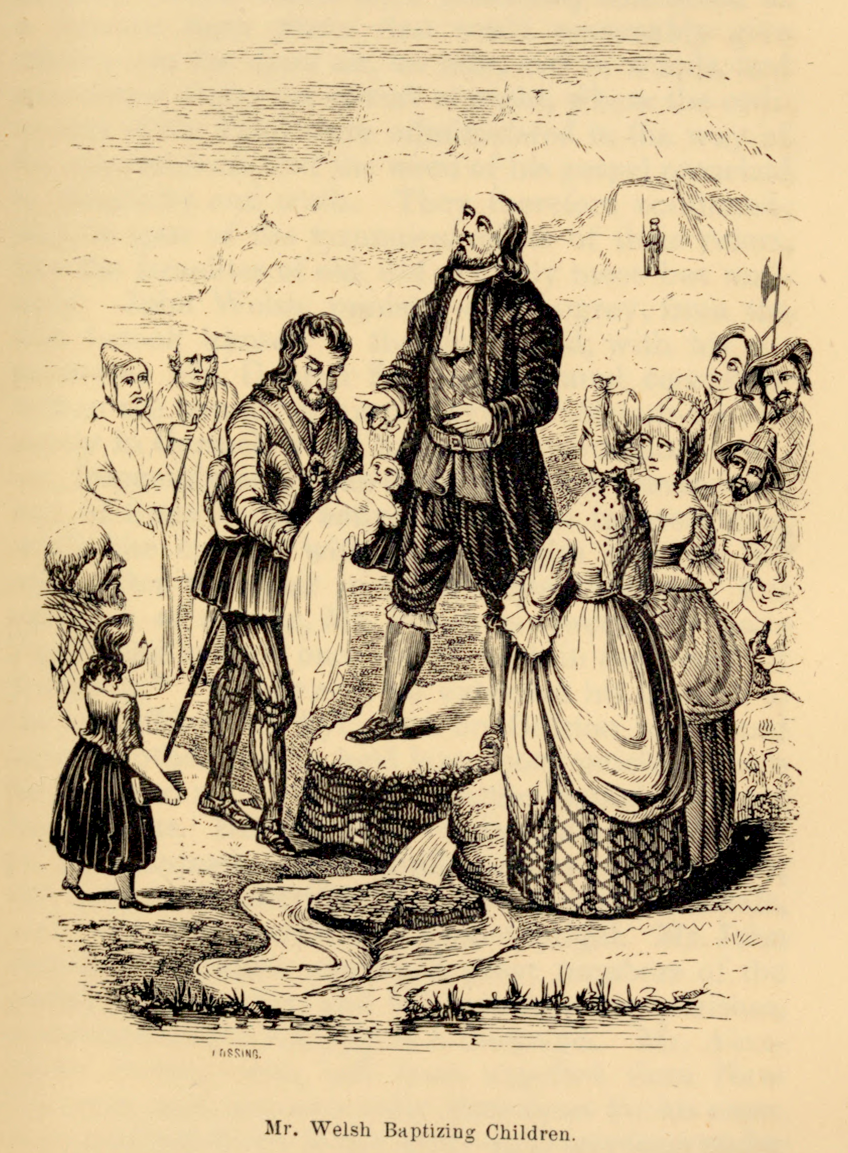 etching of Mr. Welch baptising children from Annals of the persecution in Scotland, from the restoration to the revolution (Vol 1)